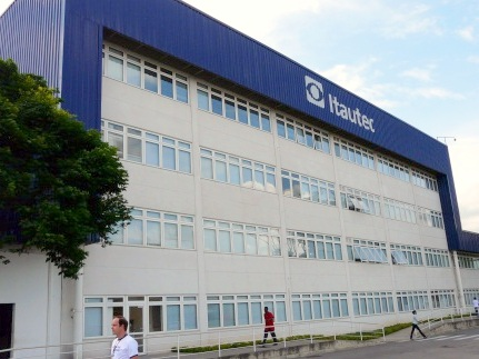 Itautec in Jundaí.